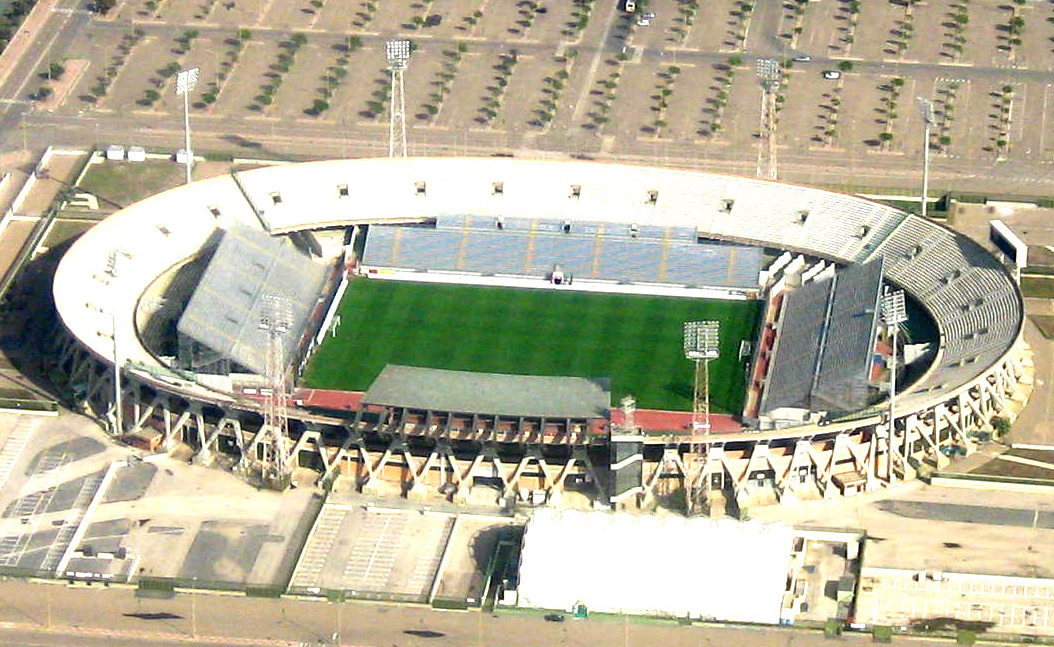 Cropped version of File:Stadio_Sant'Elia_-Cagliari_-Italy-23Oct2008.jpg, originally posted to Flickr as Stadio